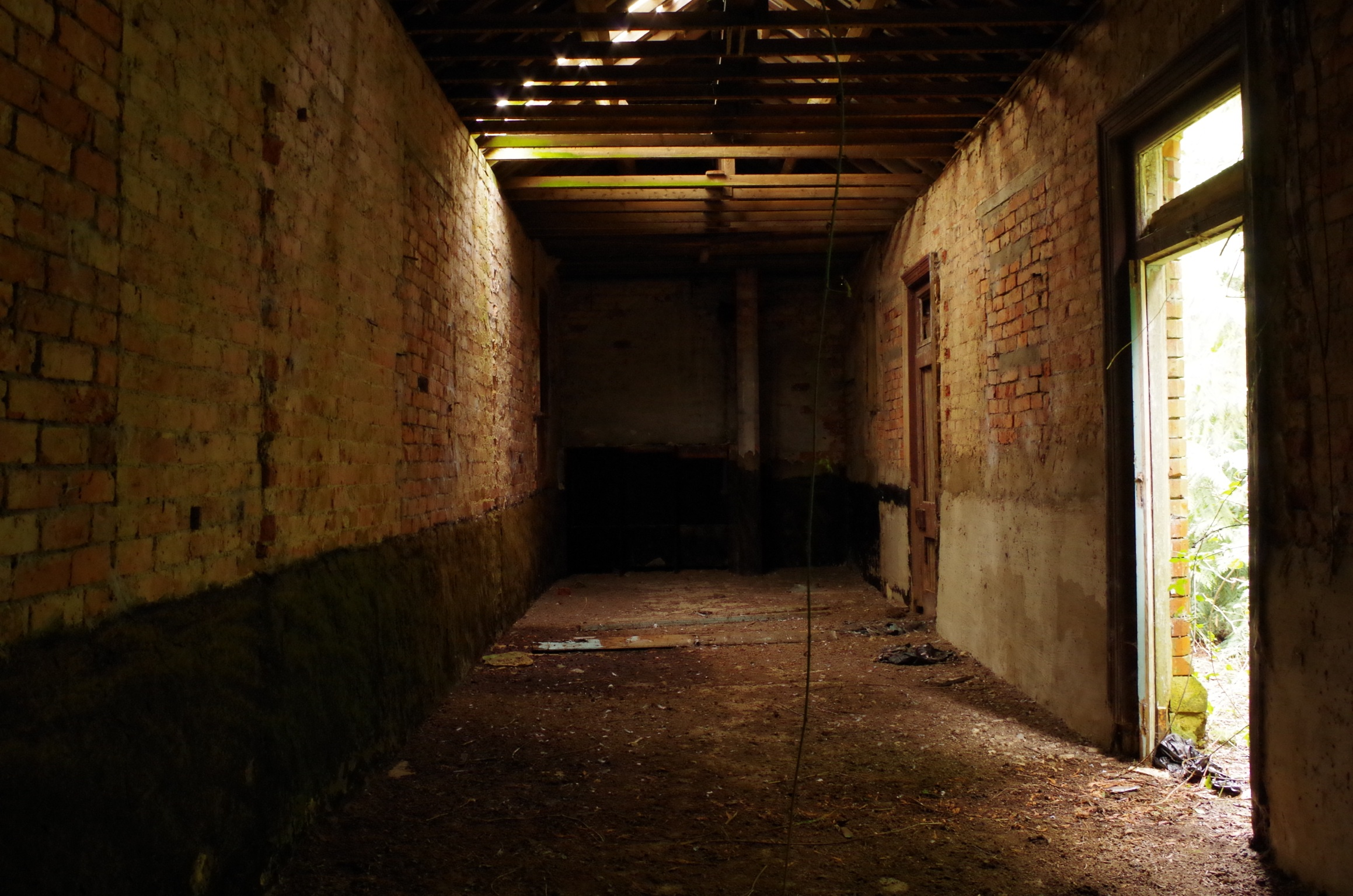 Foss Cross station building as of 2013